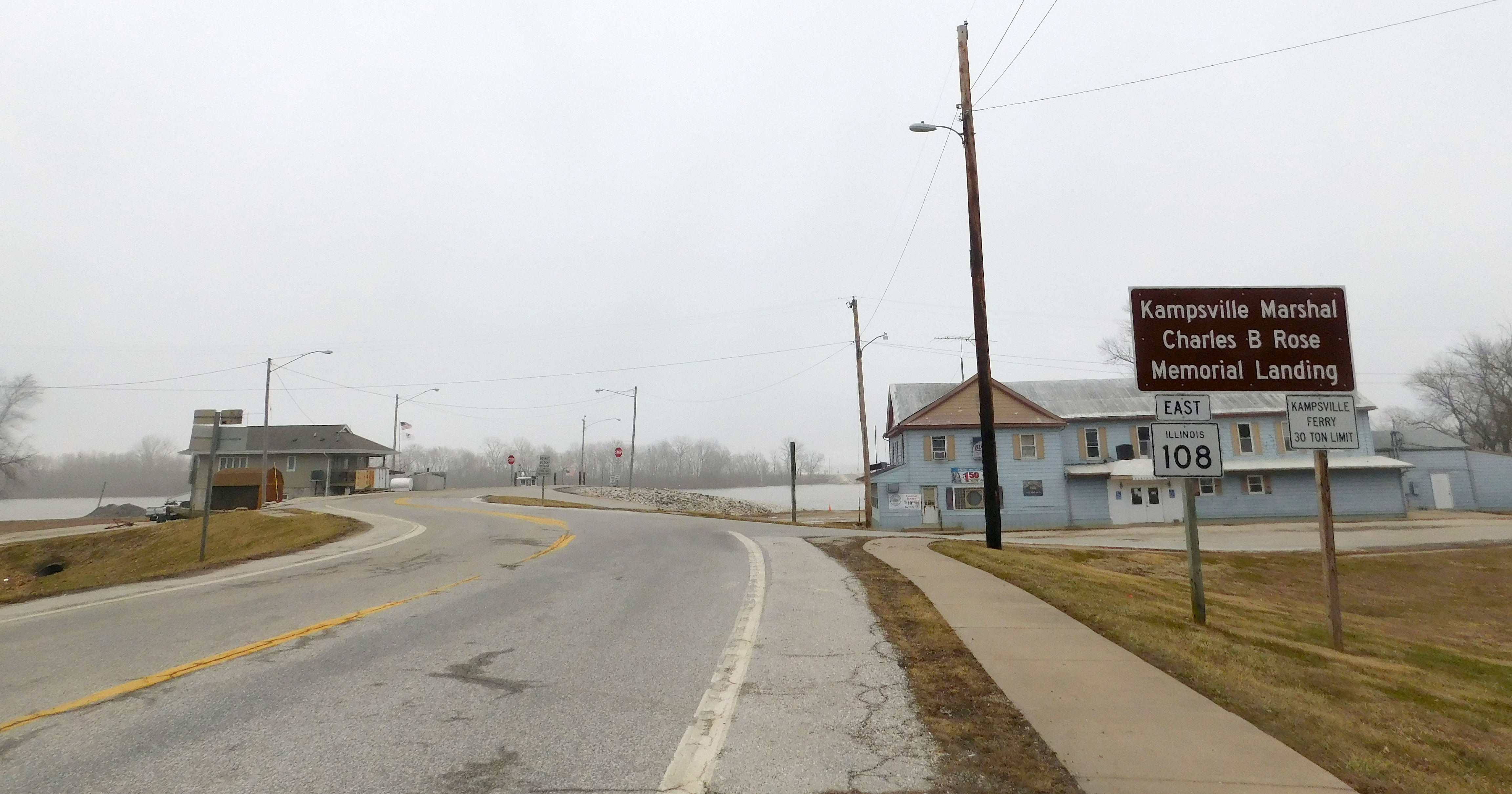 Kampsville Marshal Charles B. Rose Memorial Landing - Kampsville, Illinois.